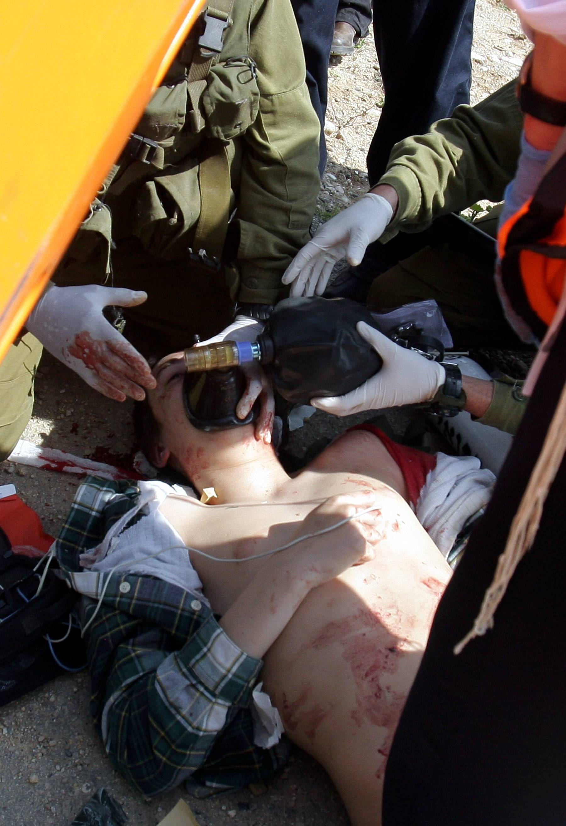 A fatally wounded 16 years-old Israeli school boy; he was injured when a Russian-made, laser-guided Kornet anti-tank missile fired by hamas hit a school bus he was riding in; the boy died 10 days later.